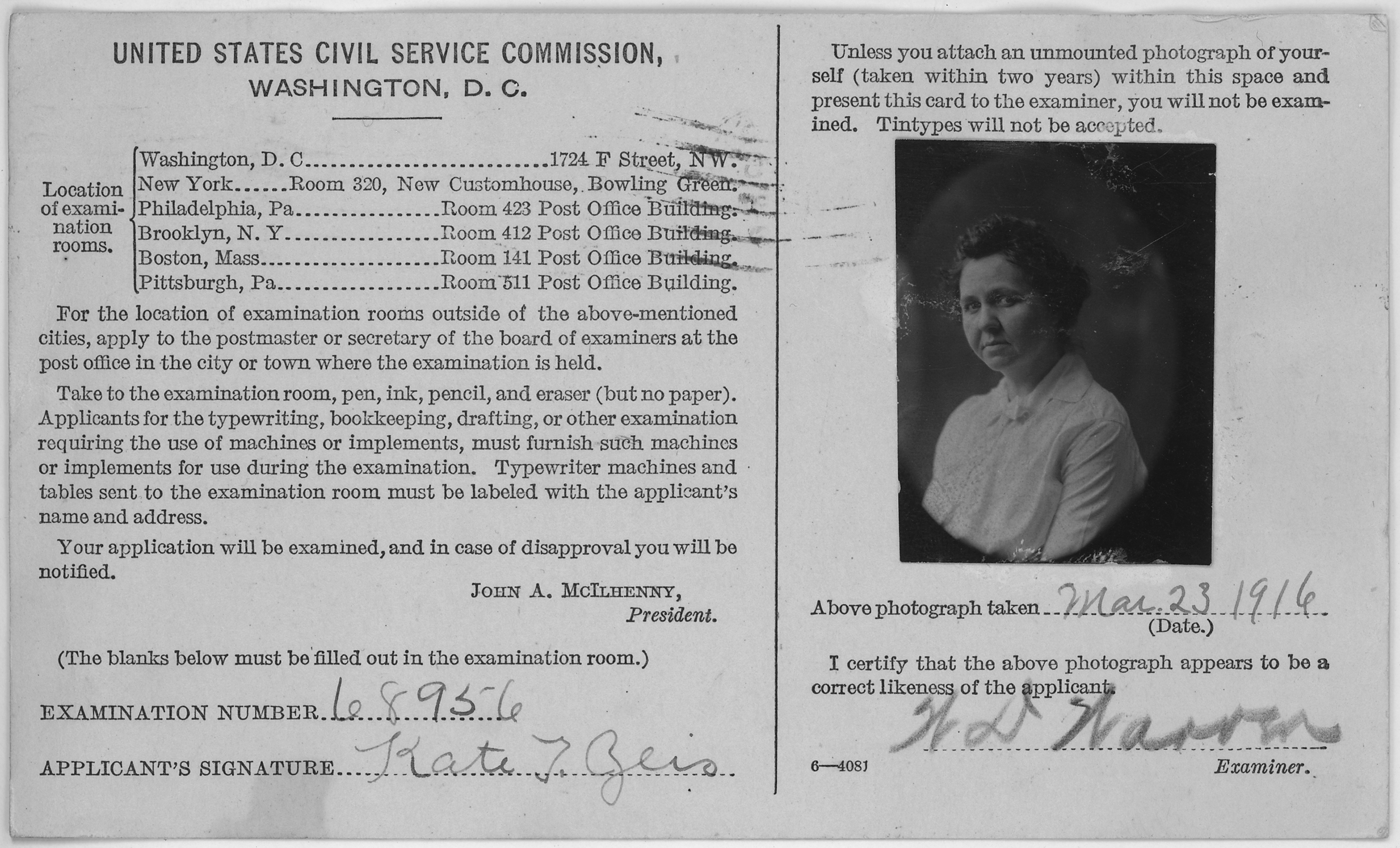 Scope and content: The photo is afixed to an admissions card allowing Zeis to take the matron examination given by the United States Civil Service Commission in Chicago on September 13, 1916. Information includes signature of applicant, examination number, and date and location of examination.